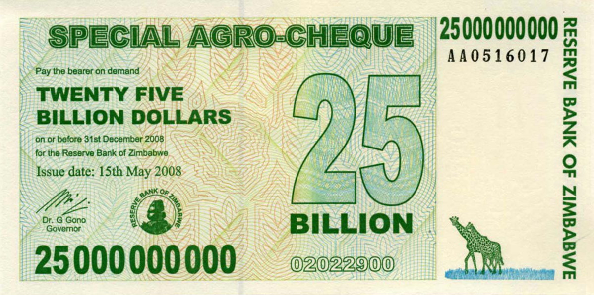 This is the obverse of a paper banknote of the Zimbabwe Dollar.